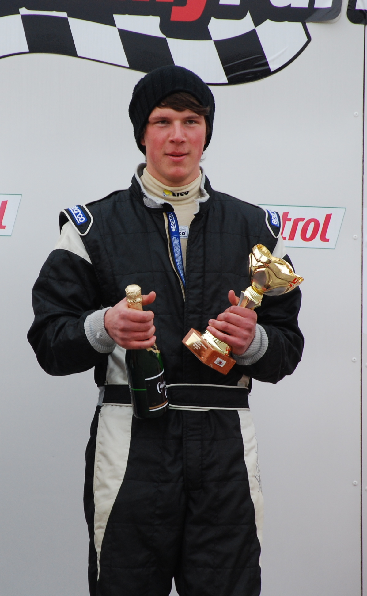 Sten Oja